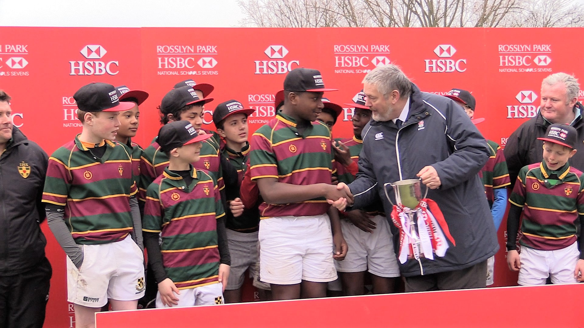 15 March 2016: Geoff Simpson (President, English Rugby Schools) presents Wimbledon College with Rosslyn Park HSBC National Schools Sevens 2016 Juniors Trophy